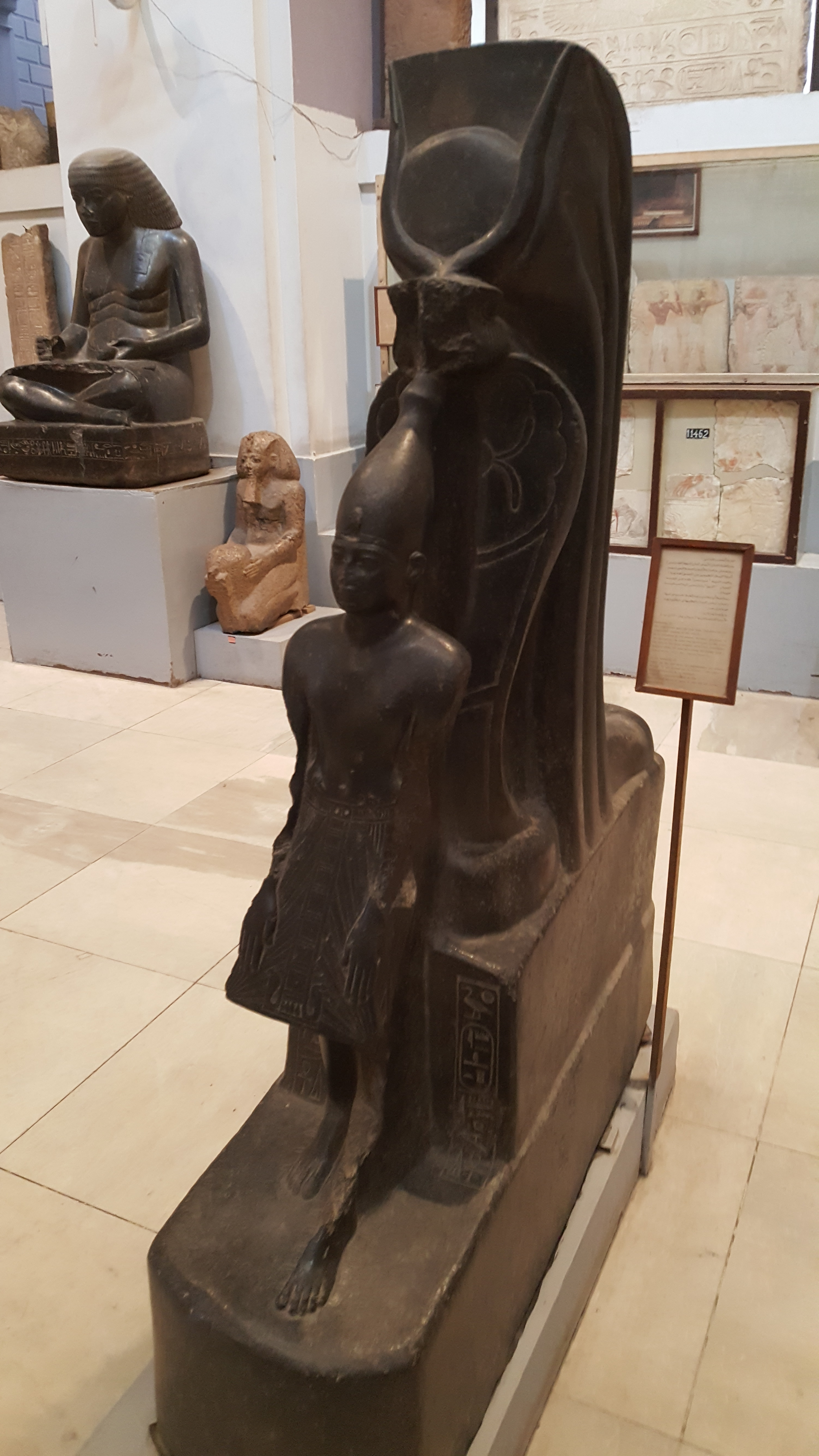 Statue of Amenhotep II and Meretseger, from Karnak. In Cairo, Egyptian Museum, main floor, room 12, JE 39394 (H= 125 cm)